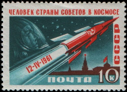 Stamp of the Soviet Union, Yuri Gagarin, 1961